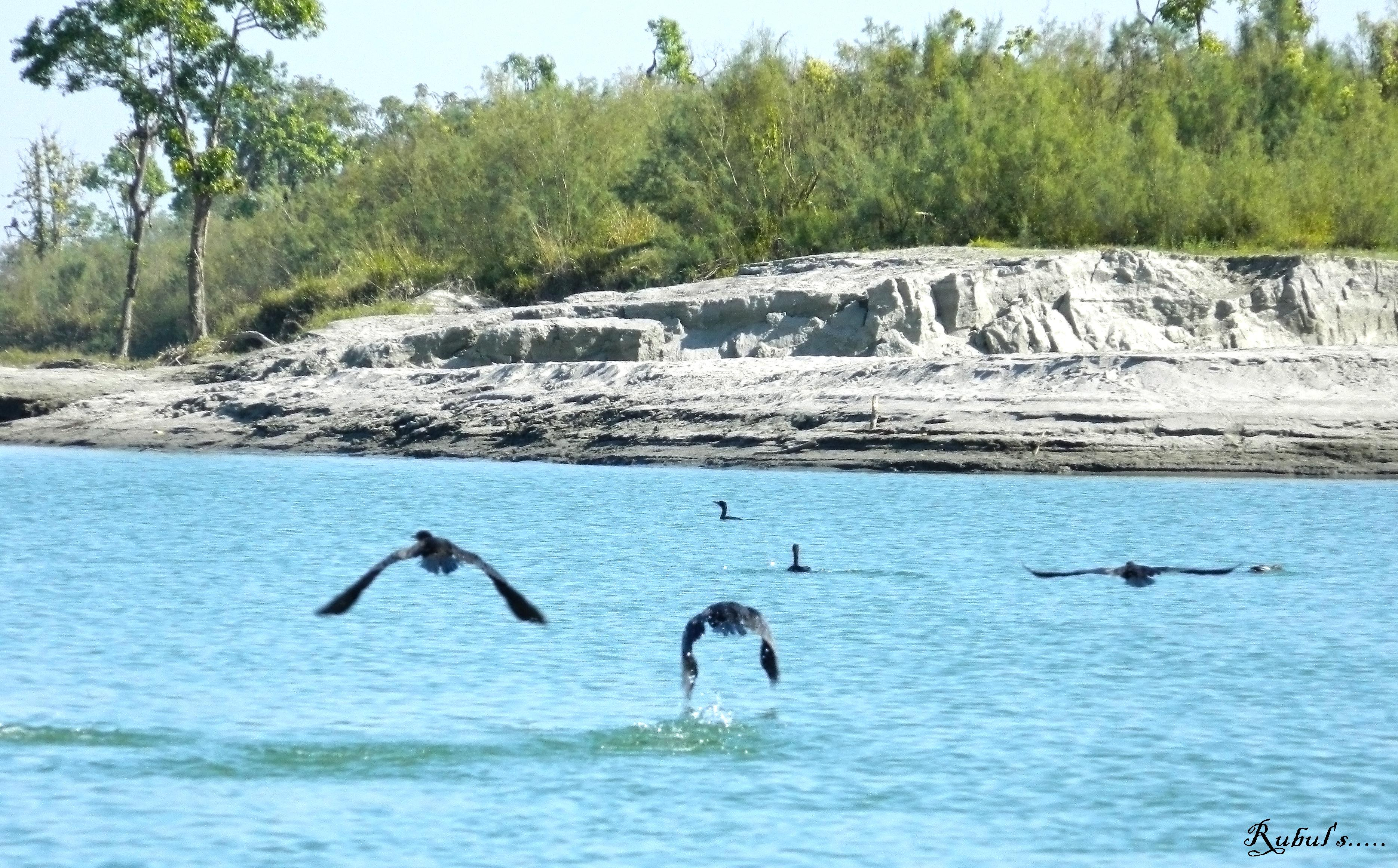 Dibru-Saikhowa National Park is a national wildlife park in Tinsukia, Assam, India. Dibru - Saikhowa national park is located at about 12 km north of Tinsukia town of Assam covering an area of 350 km2. It lies between 27°30' N to 27°45' N latitude and 95°10' E to 95°45'E longitude at an average altitude of 118 m (range 110-126m). It is also a biosphere reserve.